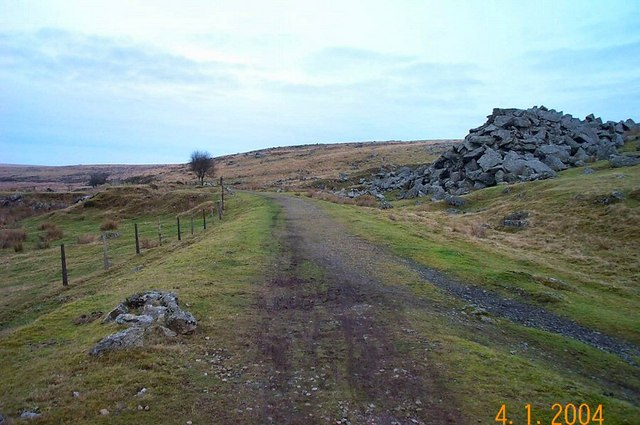 Remains of railway halt - Dartmoor. The railway halt at Ingra Tor was made in 1937 so as to take away waste granite for use as road dressing. The track used to house the course of the old Princetown to Yelverton railway.